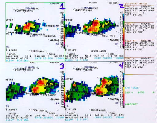 Tornadic supercell thunderstorm splitting on June 20th, 1997. Image recreated on the 25th.